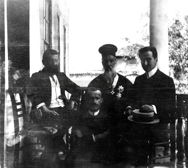 Teodoros Askitis ando ther greeks